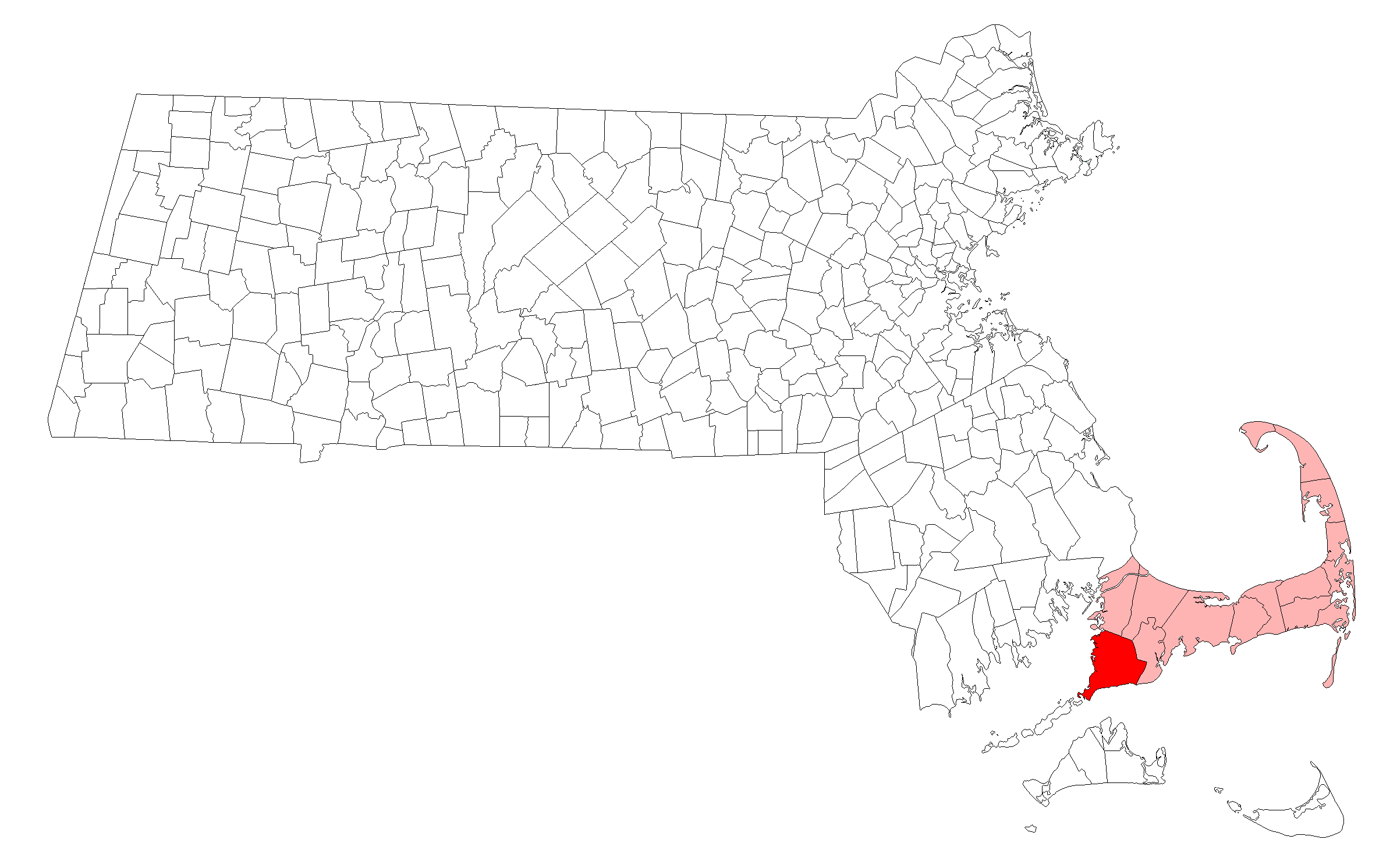 Location of Falmouth within Barnstable County, MA.